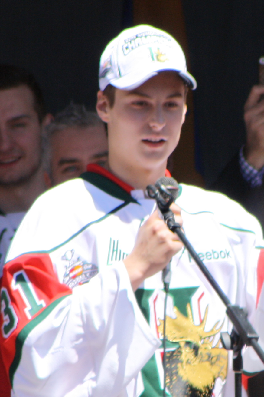 Halifax Mooseheads goaltender Zach Fucale addresses the crowd at Halifax's Grand Parade on May 28, 2013, following the team's Memorial Cup victory.